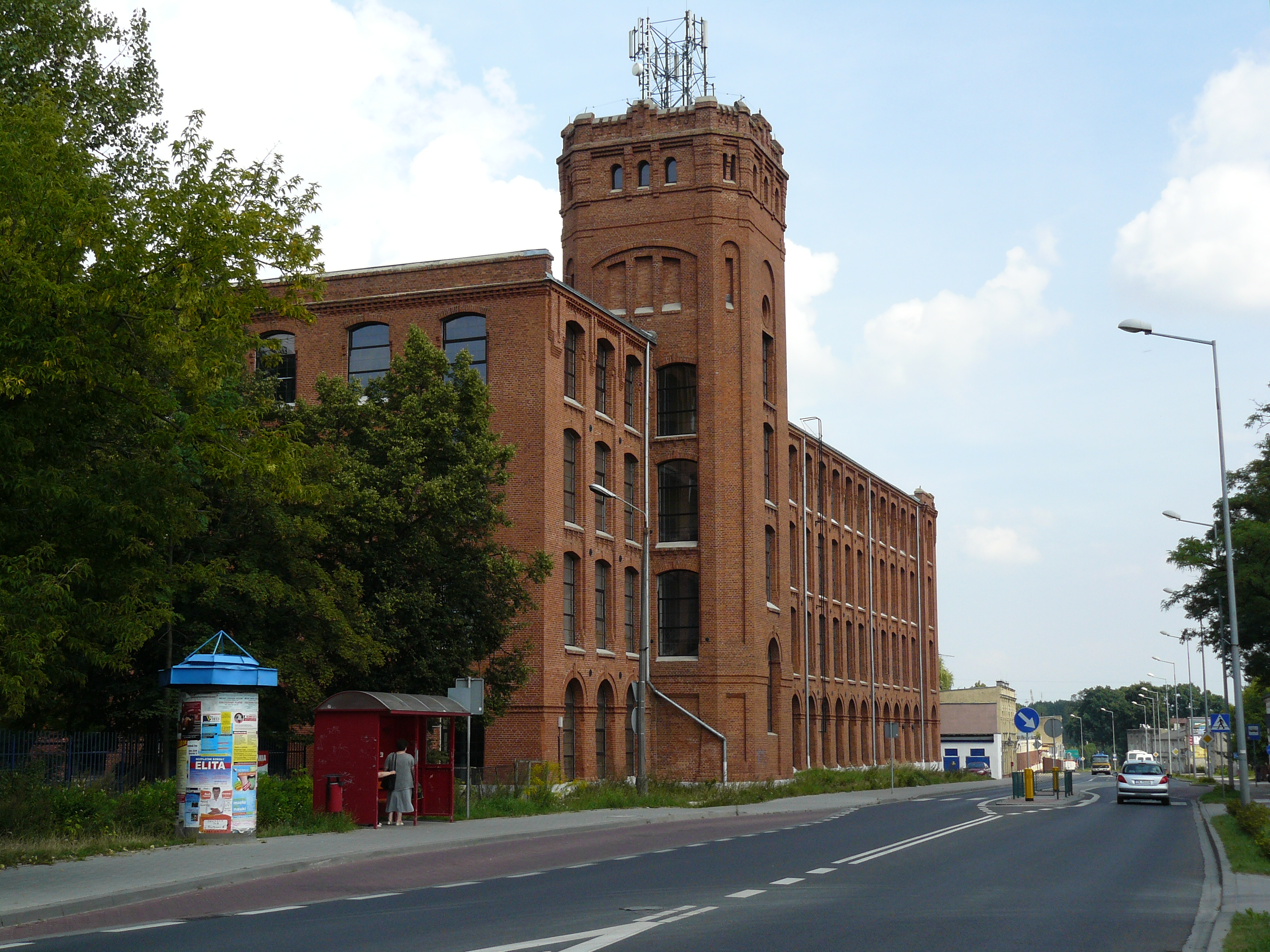 Former textile factory building.